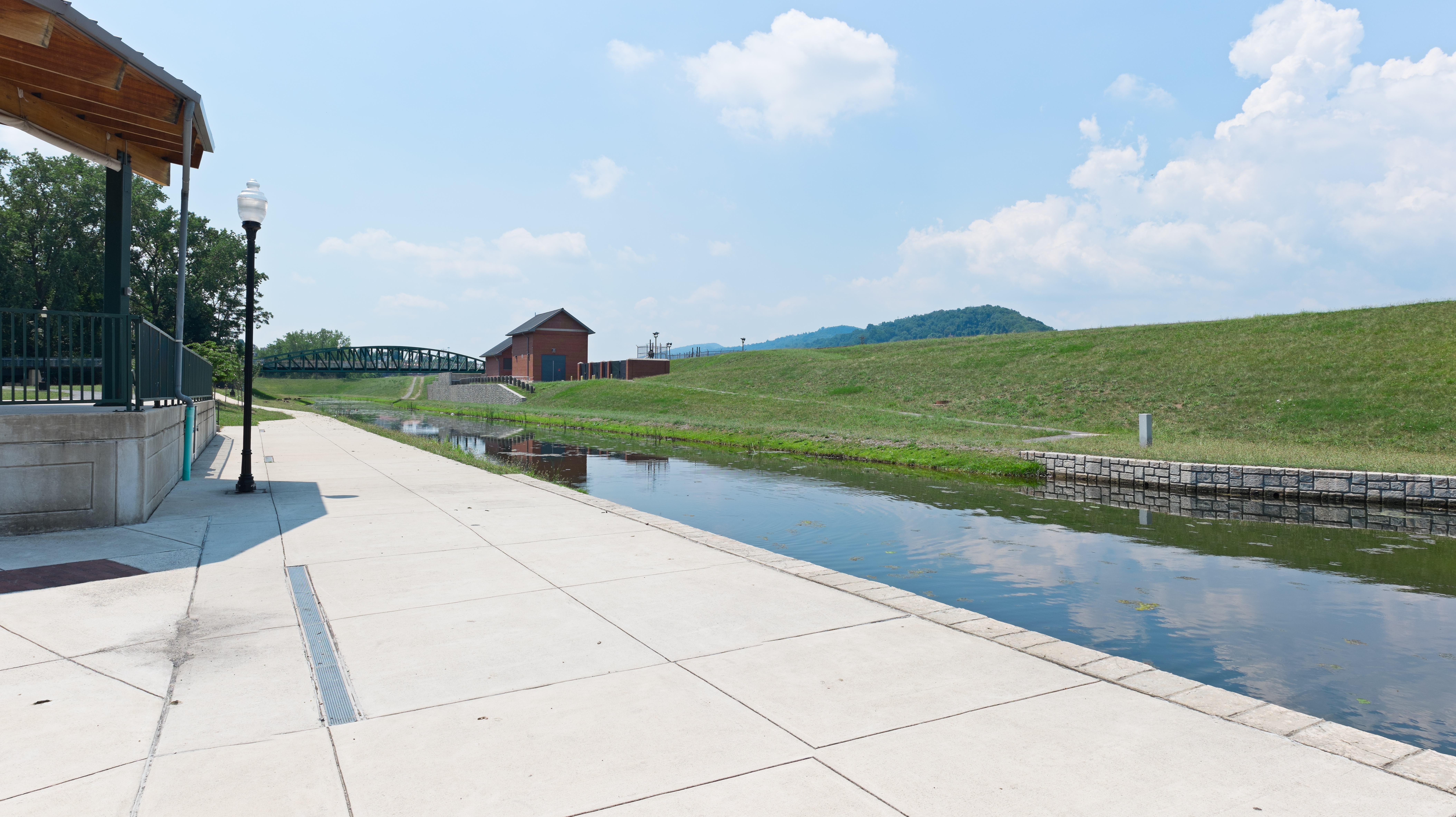 Canal Basin end at Cumberland Maryland of the Chesapeake and Ohio Canal, looking south, toward Washington DC (184.5 miles downstream on the Canal).